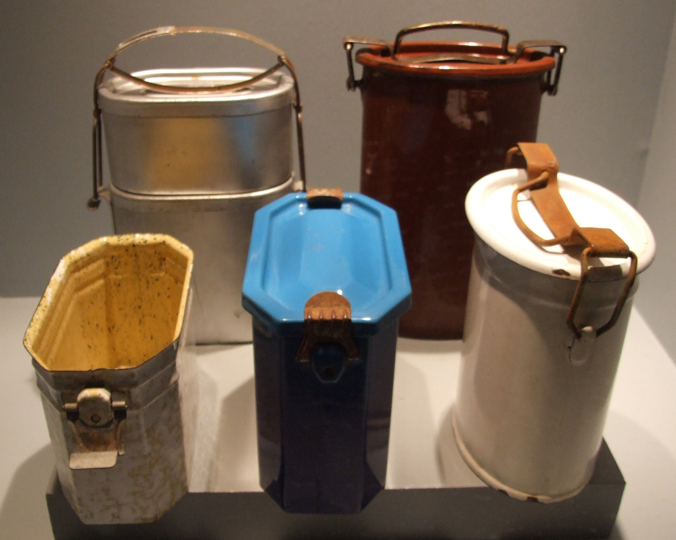 Food container